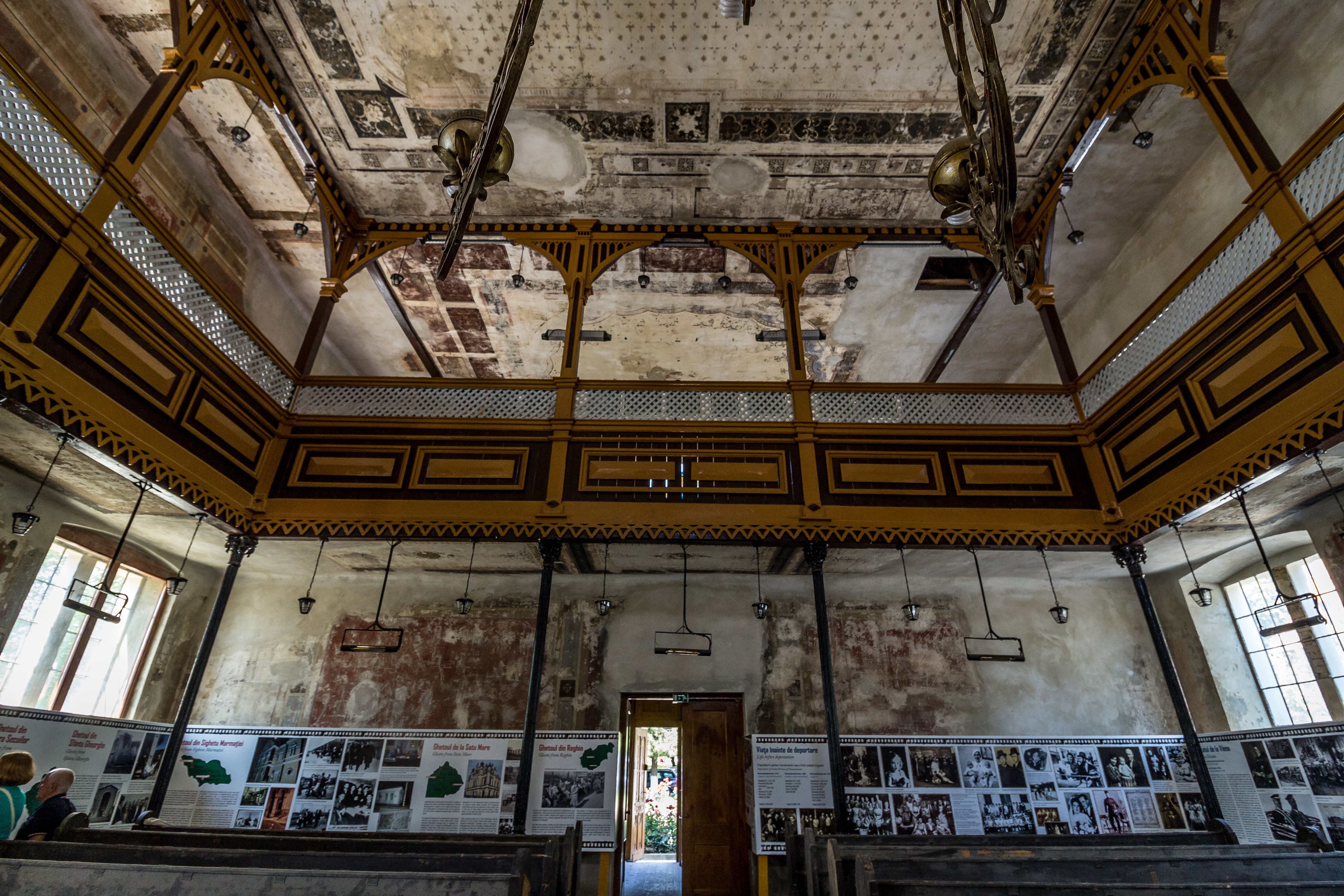 Sinagoga Simleu, interior